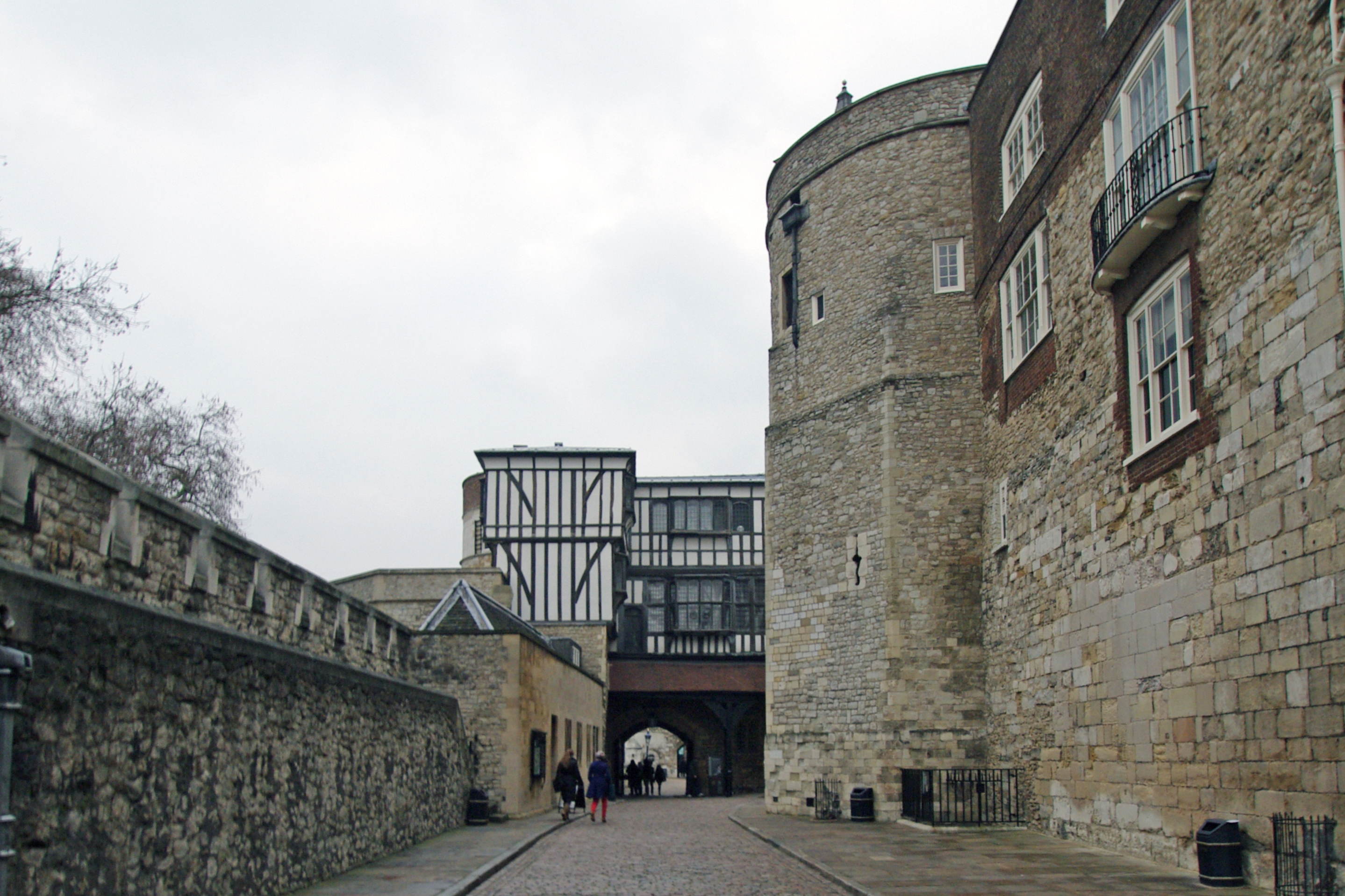 Tower of London. Water lane, seen towards entrance/exit/Byward Tower